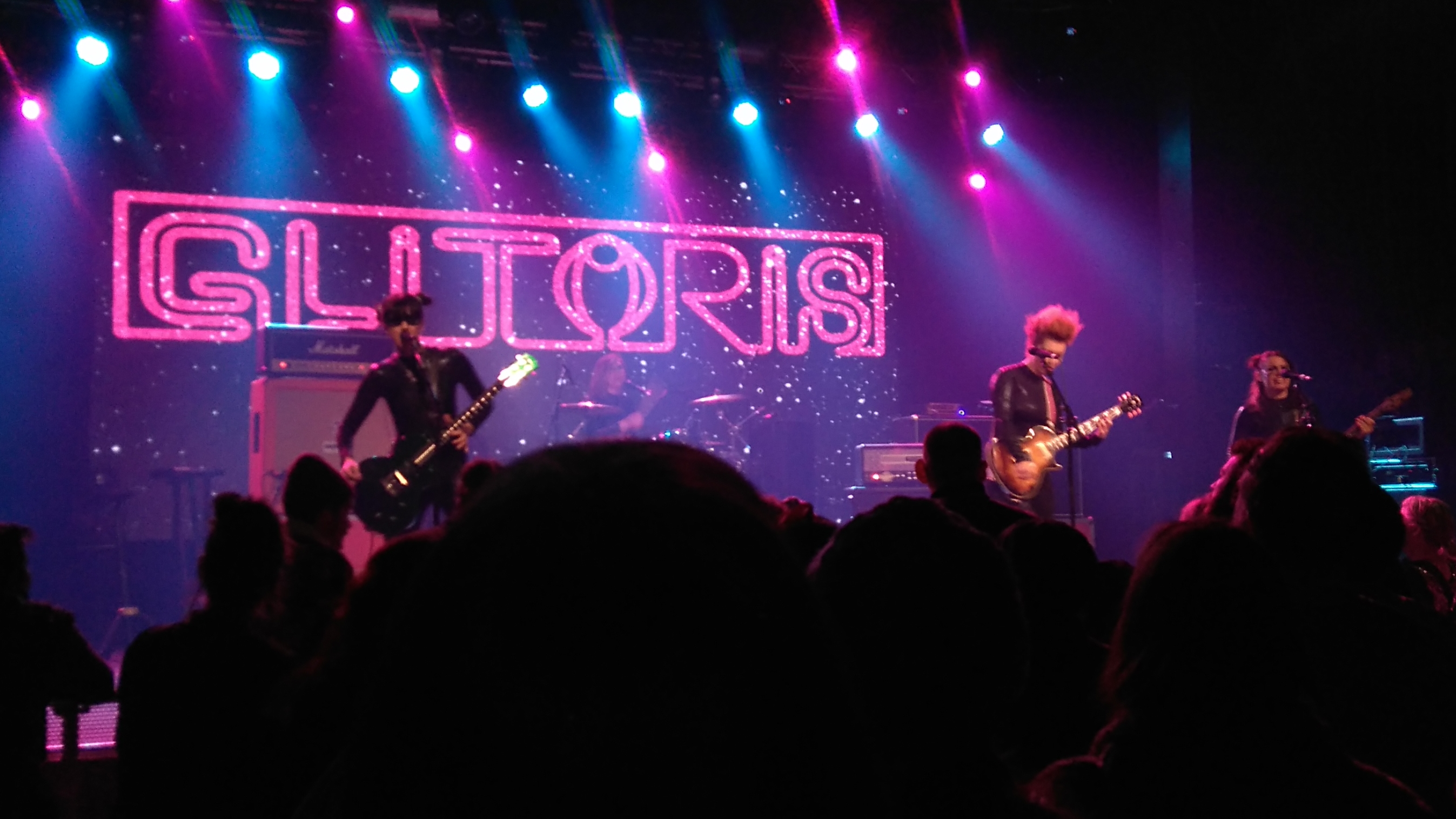 Glitoris performing live in Melbourne, Australia - supporting Regurgitator